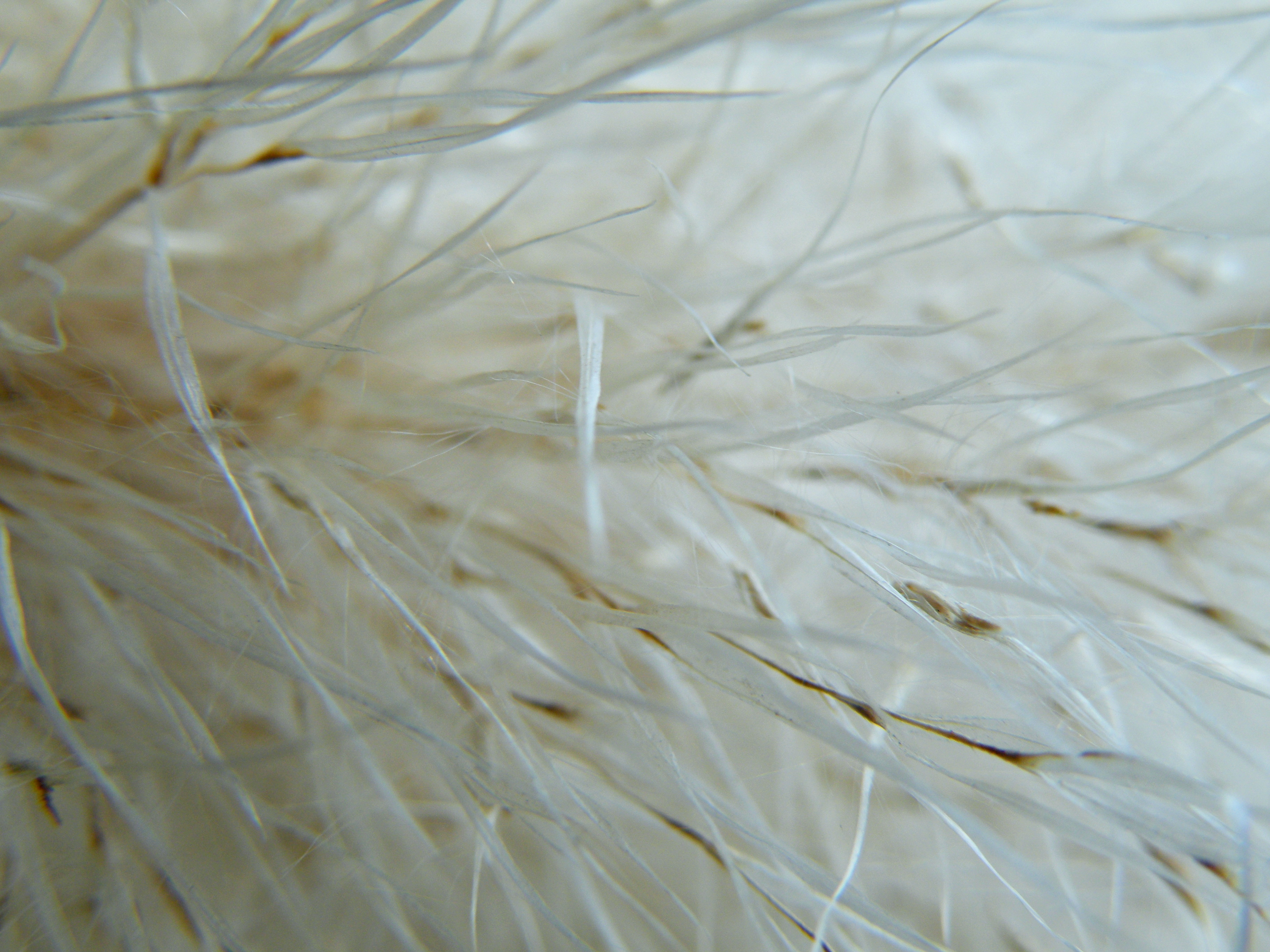 Cortaderia selloana, commonly known as pampas grass, is a flowering plant native to southern South America, including the Pampas after which it is named. This media file is produced by Wikipedian in Residence in Botanical Garden Jevremovac in 2015.